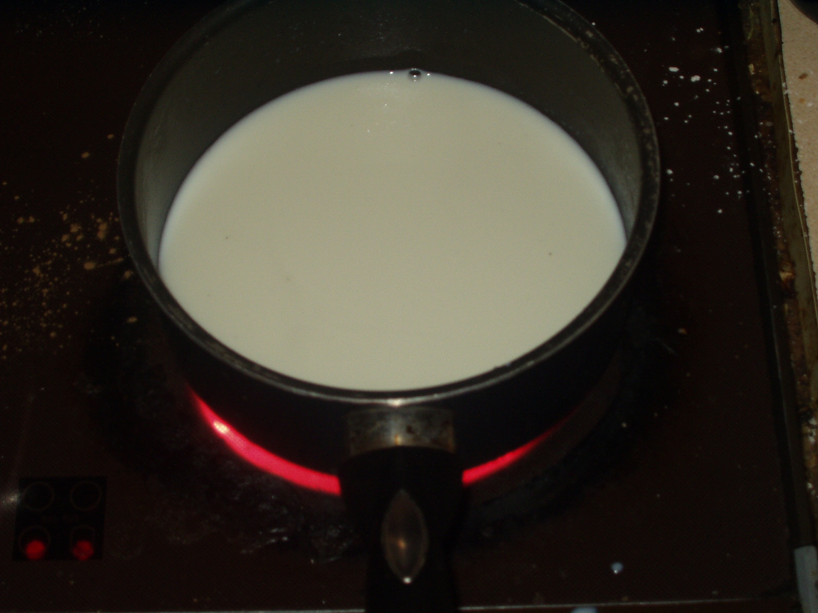 milk beign warmed on the stove